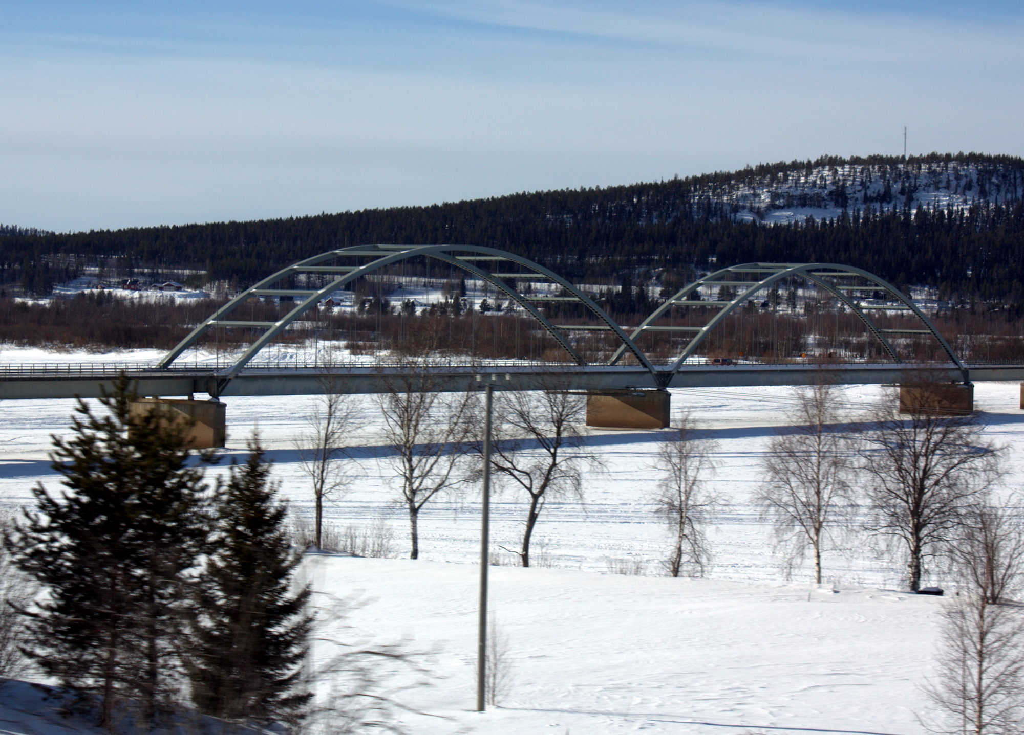 Aavasaksa bridge is a steel beam bridge over Torne river between the villages of Aavasaksa in Finland and Övertorneå (Matarengi) in Sweden. It was completed in 1965.